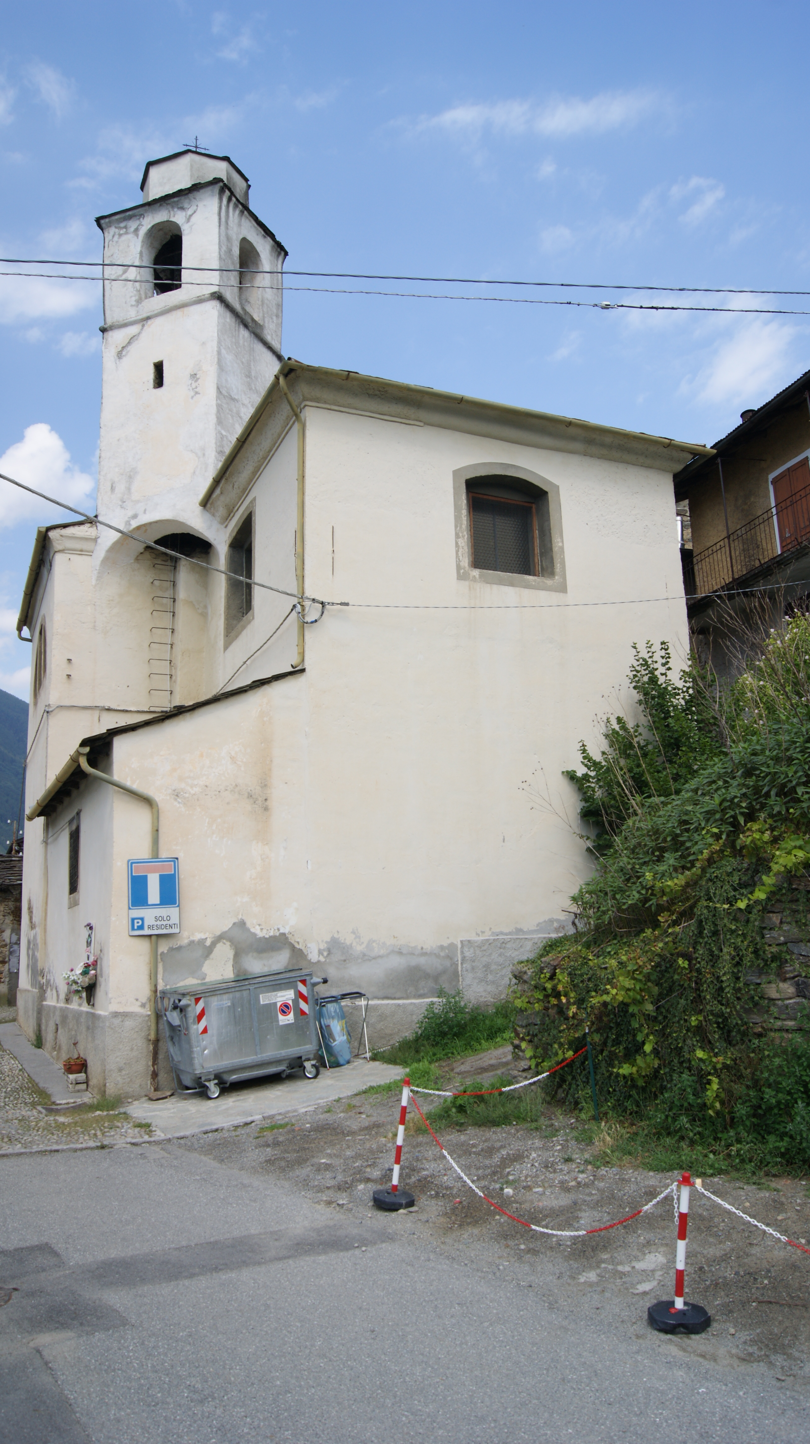 Roncaiola, part of Tirano in Italy. Church of Santo Stefano in Roncaiola, part of Tirano in Italy.